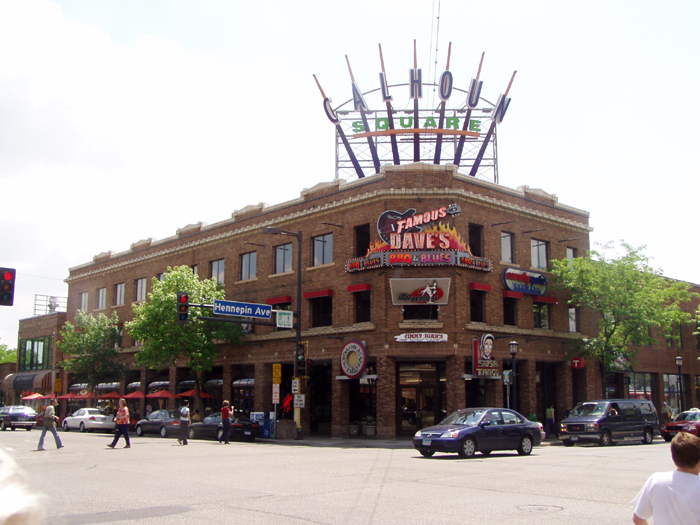 Calhoun Square shopping mall located at the intersection of Lake and Hennepin in the Uptown area of Minneapolis, 2006